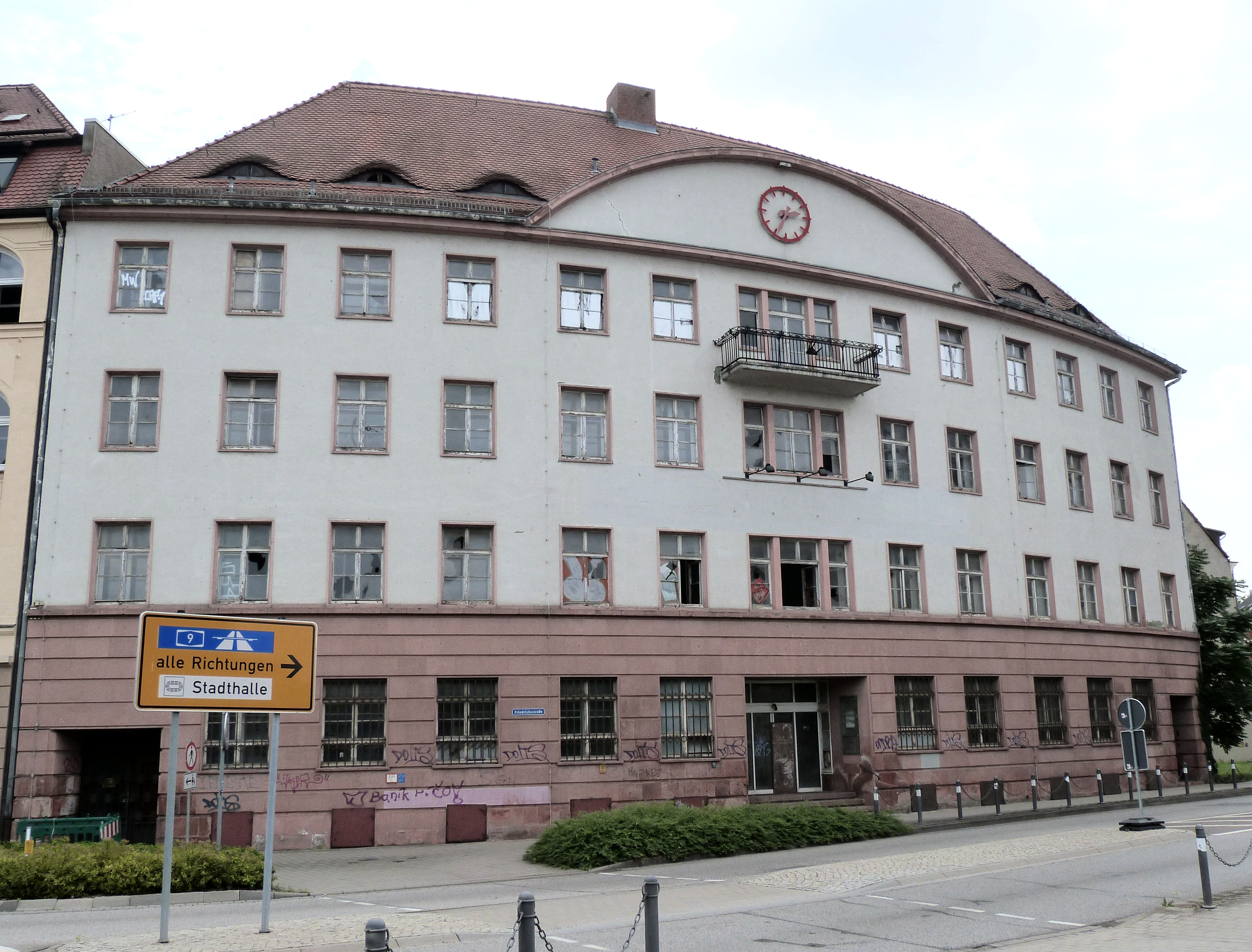 Building oft the former savings bank of Weissenfels, Friedrichsstrass No. 2